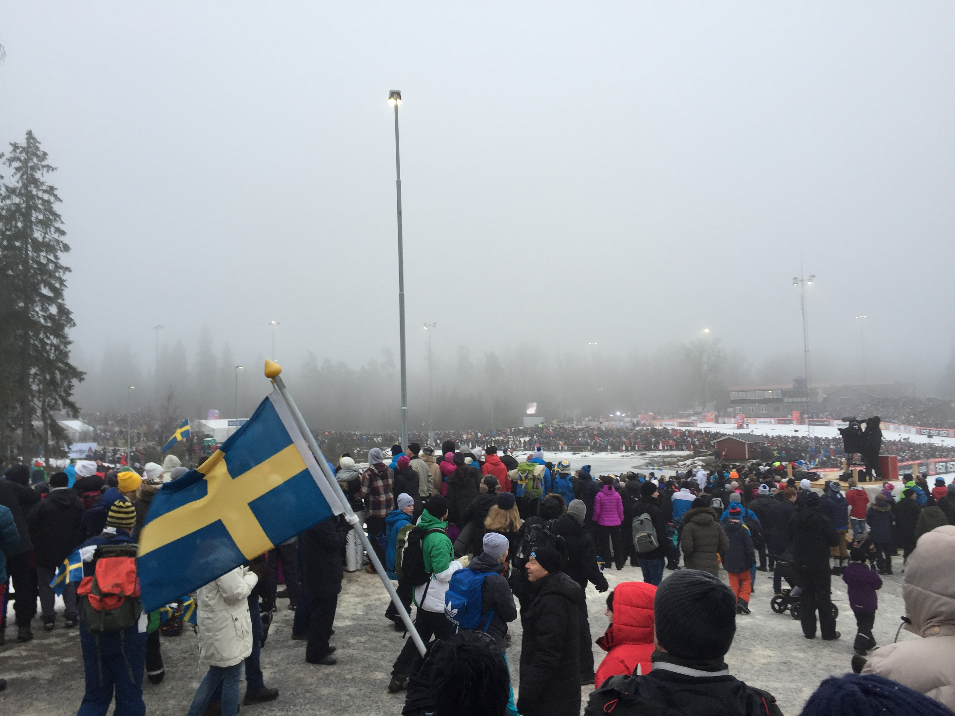 2016–17 FIS Cross-Country World Cup in Ulricehamn, Sweden.